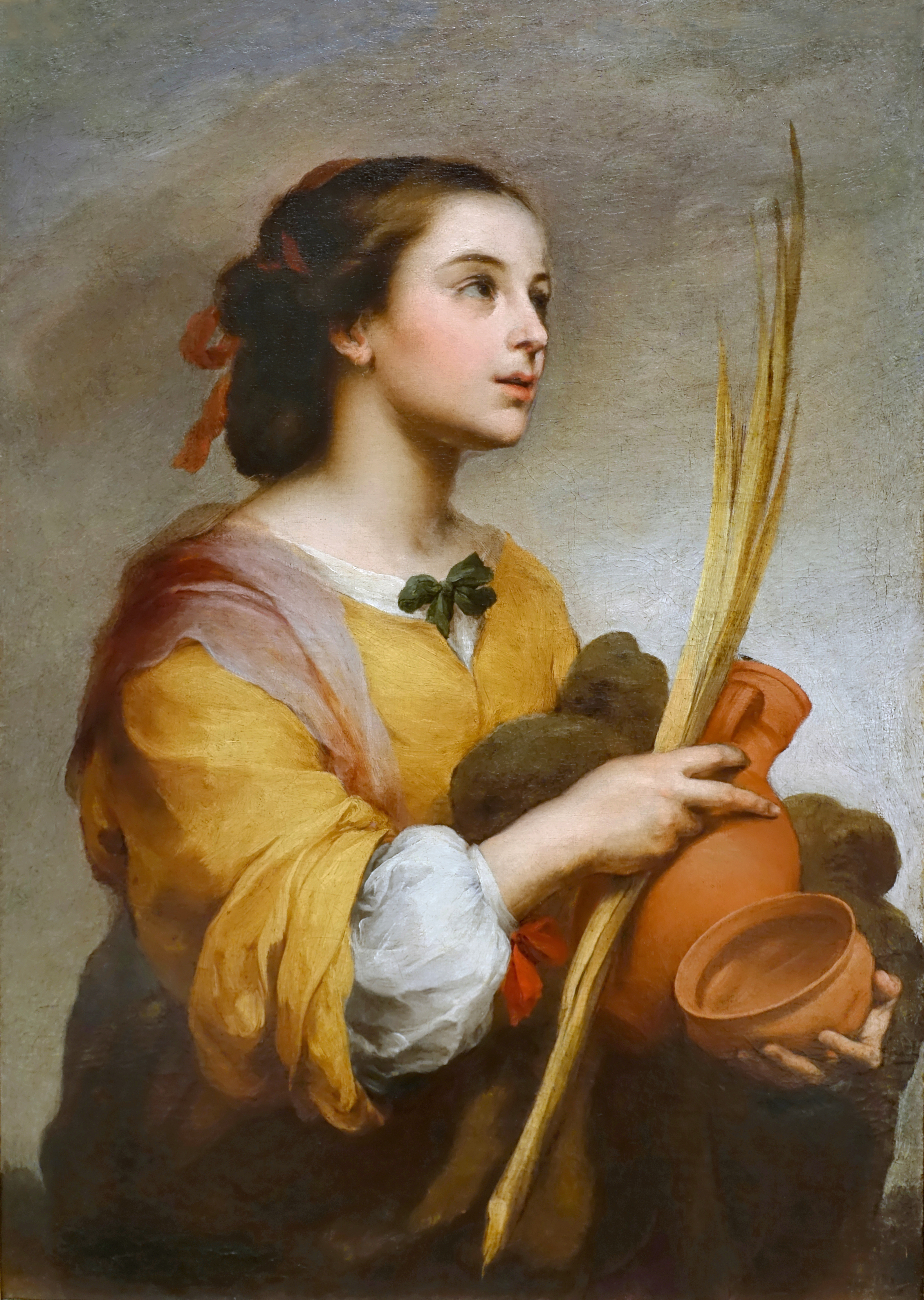 Exhibit in the Meadows Museum - Southern Methodist University, Dallas, Texas, USA.